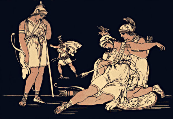 The death of Camilla